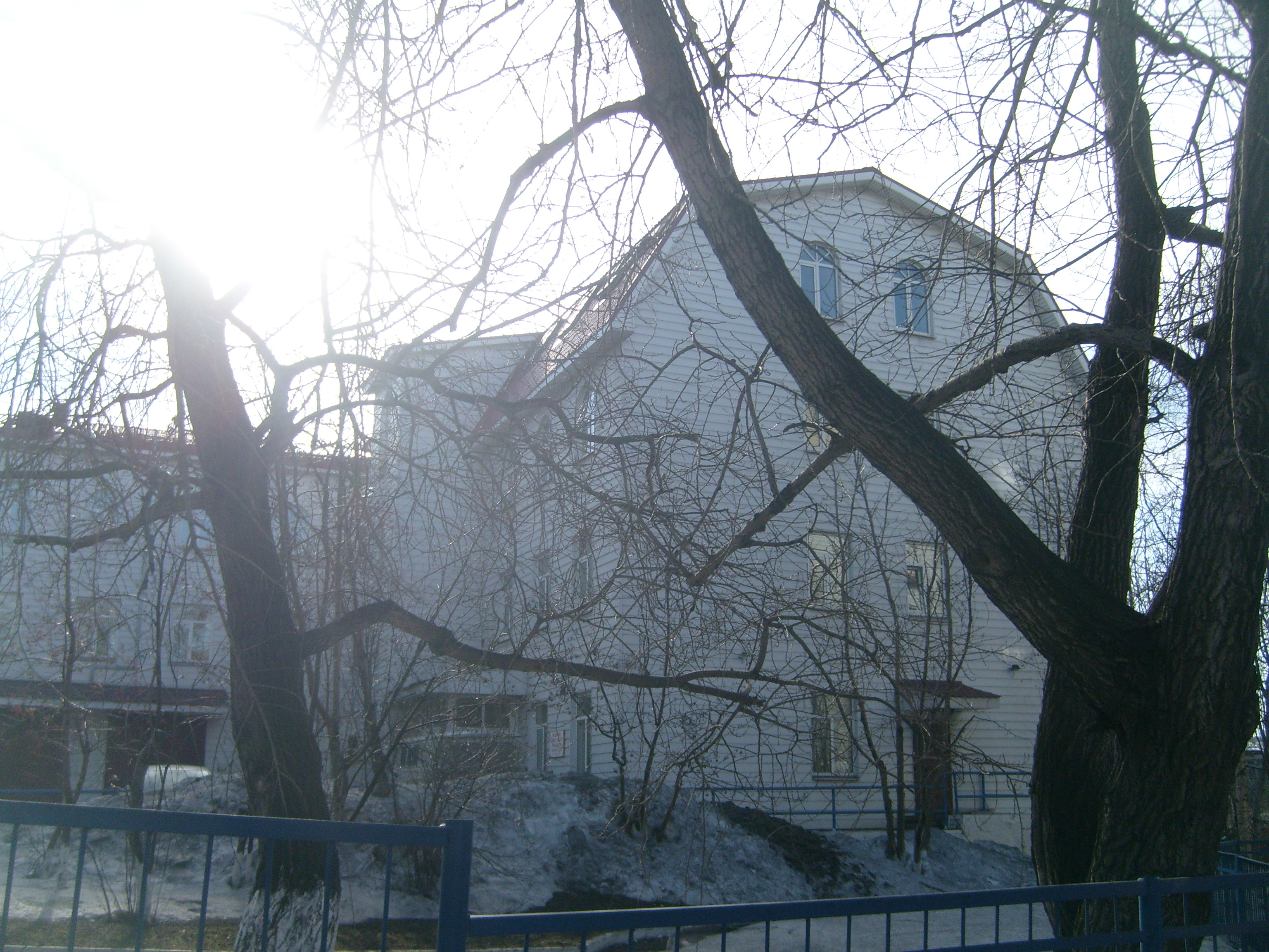 Улица Привокзальная, дом 9.